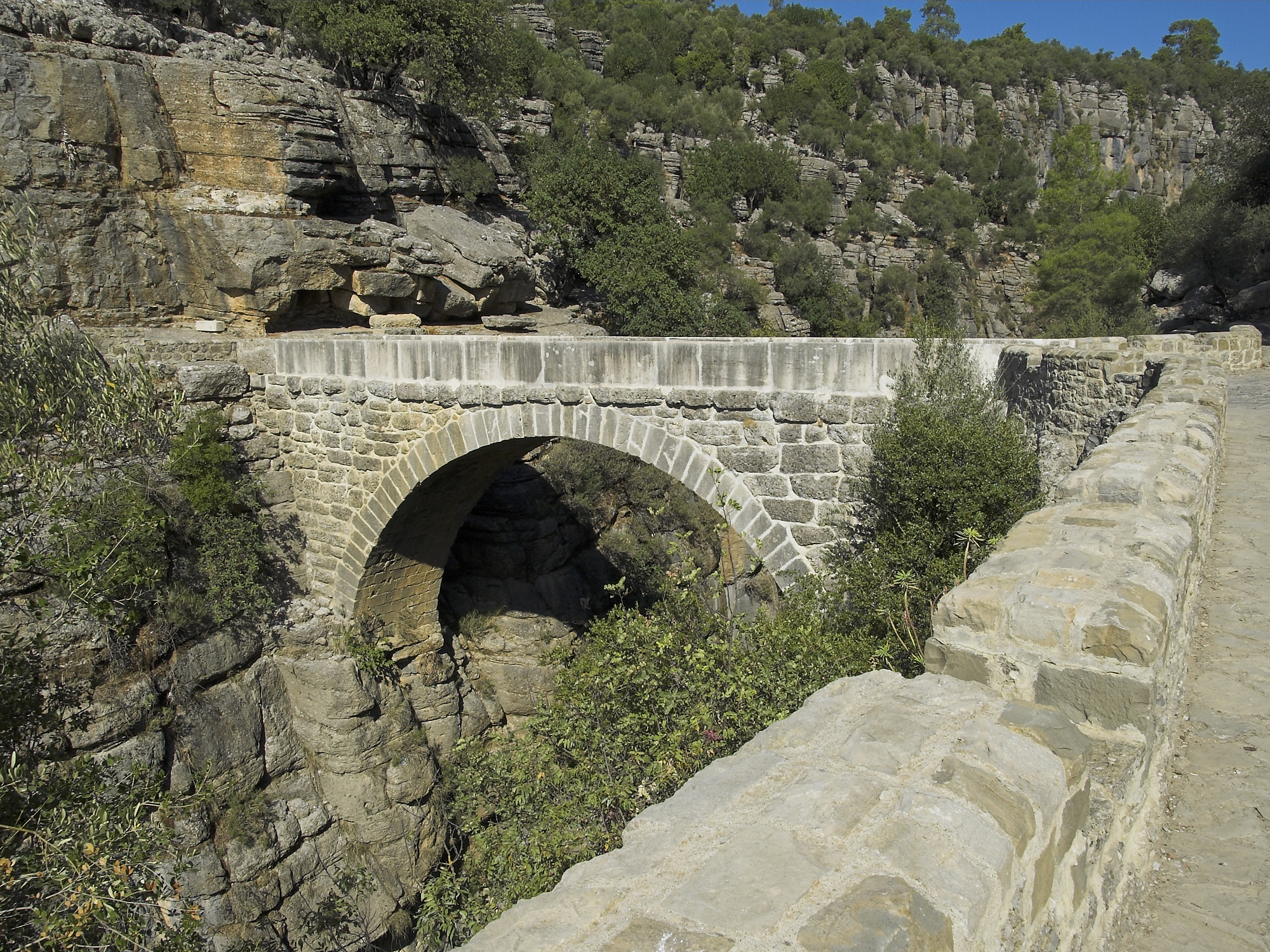 The Eurymedon Bridge (Oluk Köprü) near Selge, Pisidia, Turkey